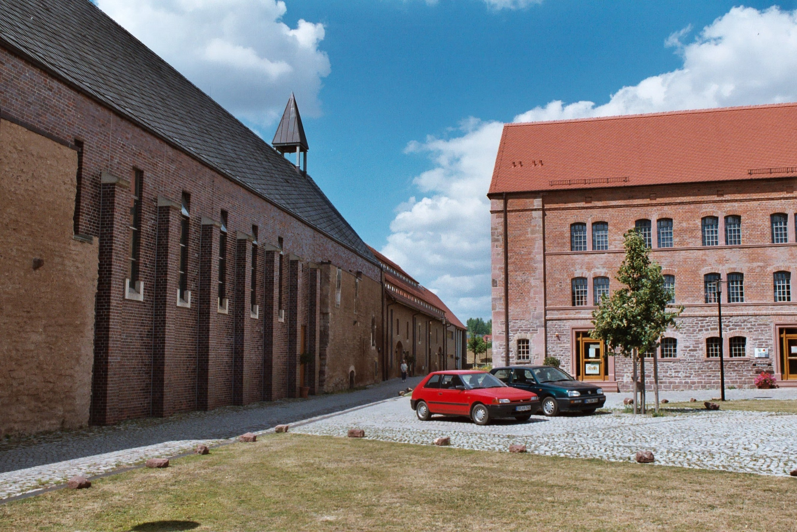 Helfta Convent (Lutherstadt Eisleben), the church